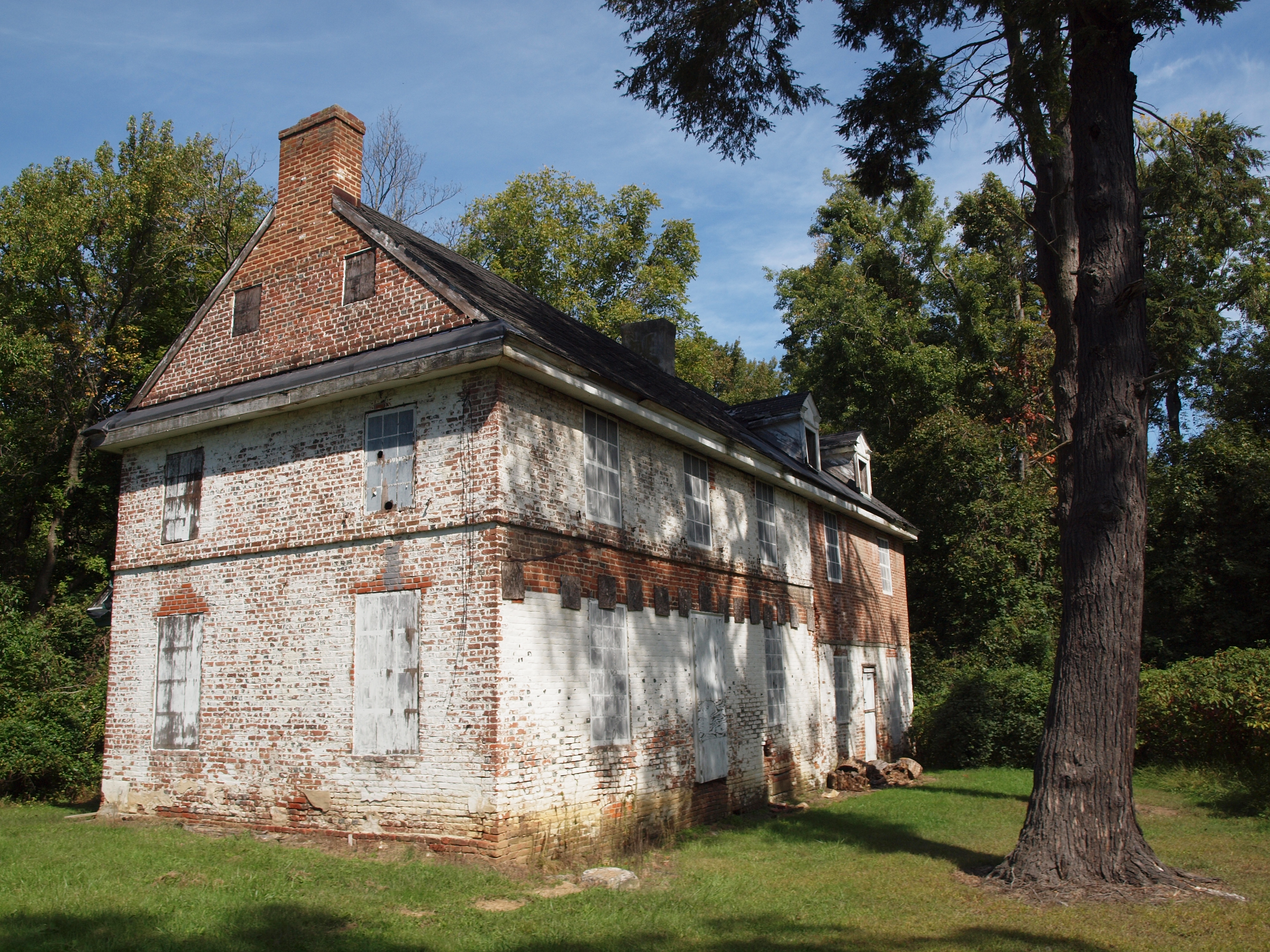 Lum's Mill House photo - located near Lum's Pond State Park, close to Kirkwood, Delaware.